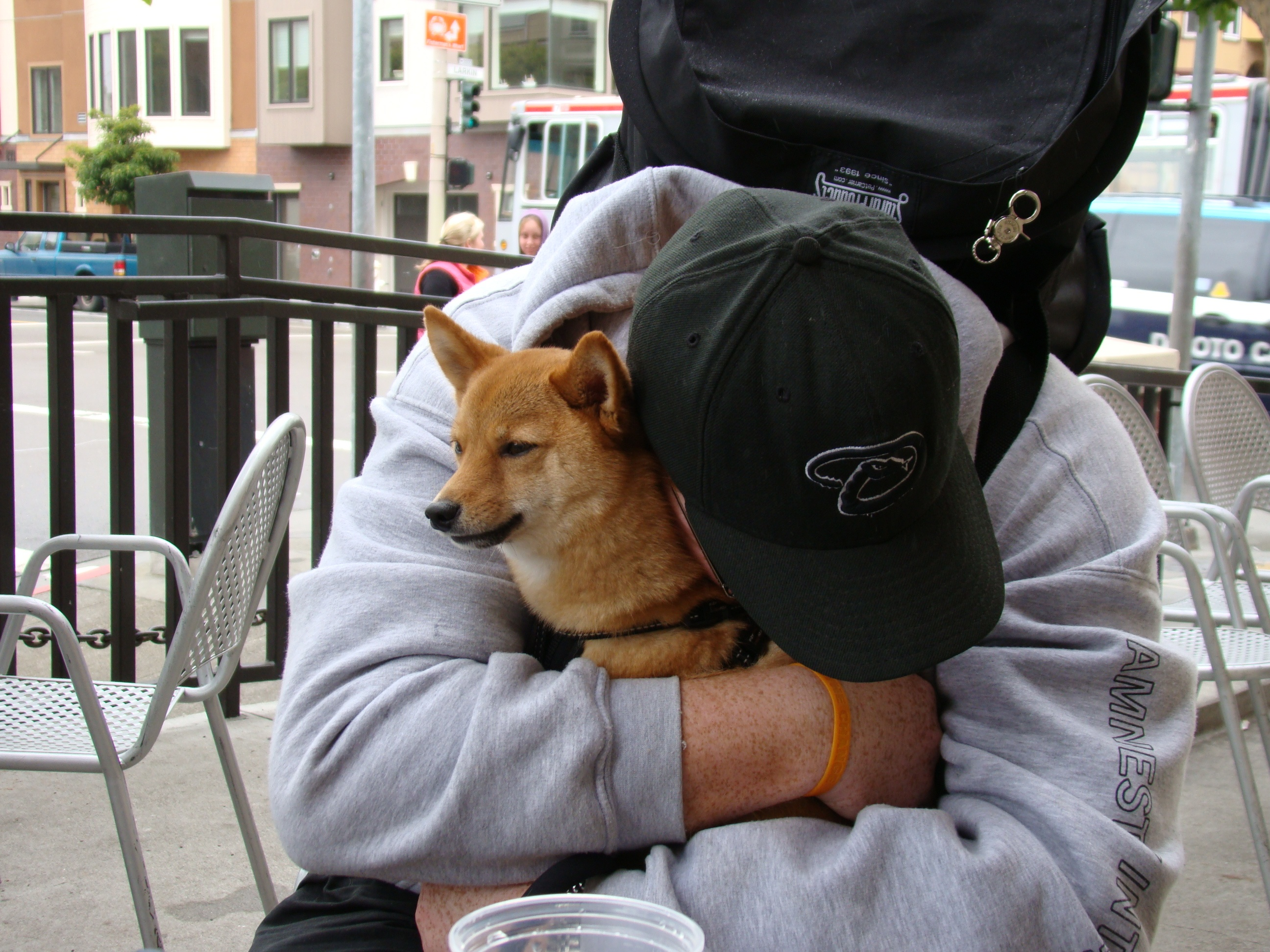 taken at ghirardelli square cafe. taken during taro the shiba's recent trip to san francisco to visit zuko the shiba's pack. kai is wearing taro's sturdibag carrier as a backpack: dogs riding the BART have to be in carriers if they are not service animals. at this point, kai, tra and taro were abut 40% done with their nearly 6 mile walk through san francisco more of taro the shiba on his blog: or follow taro on twitter